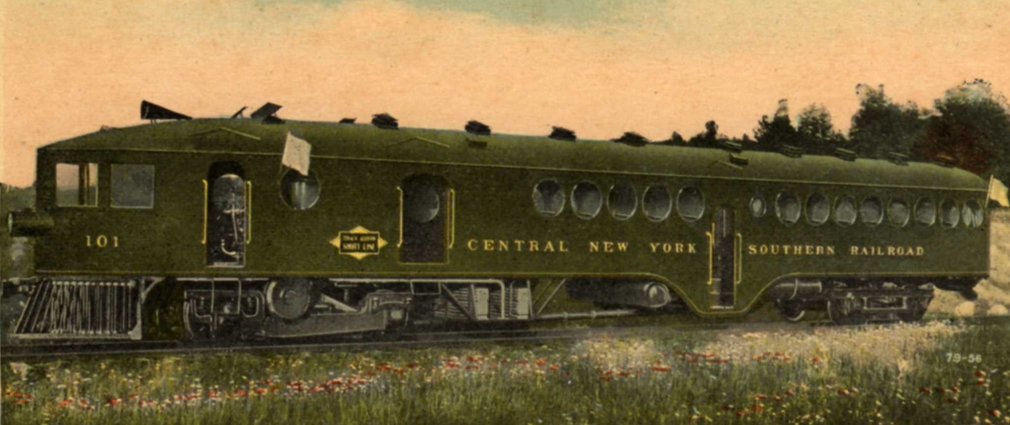 Central New York Southern Railroad McKeen car